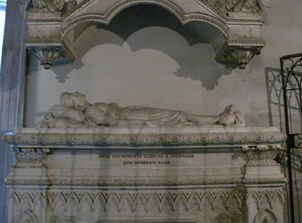 Clemenza of Zähringen